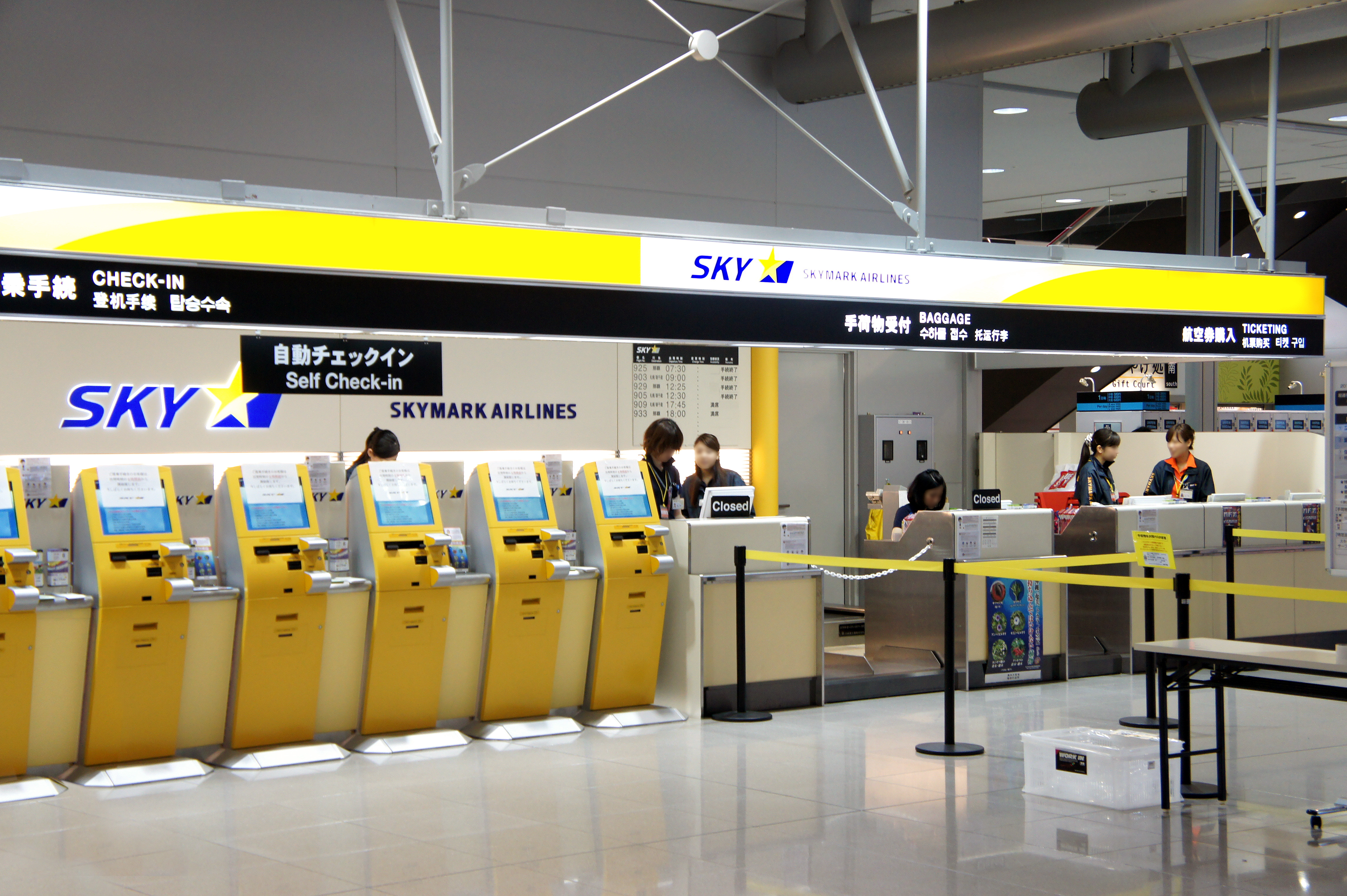 Skymark Airlines Check-in Counter(Kansai International Airport), Izumisano-City Osaka Japan.)